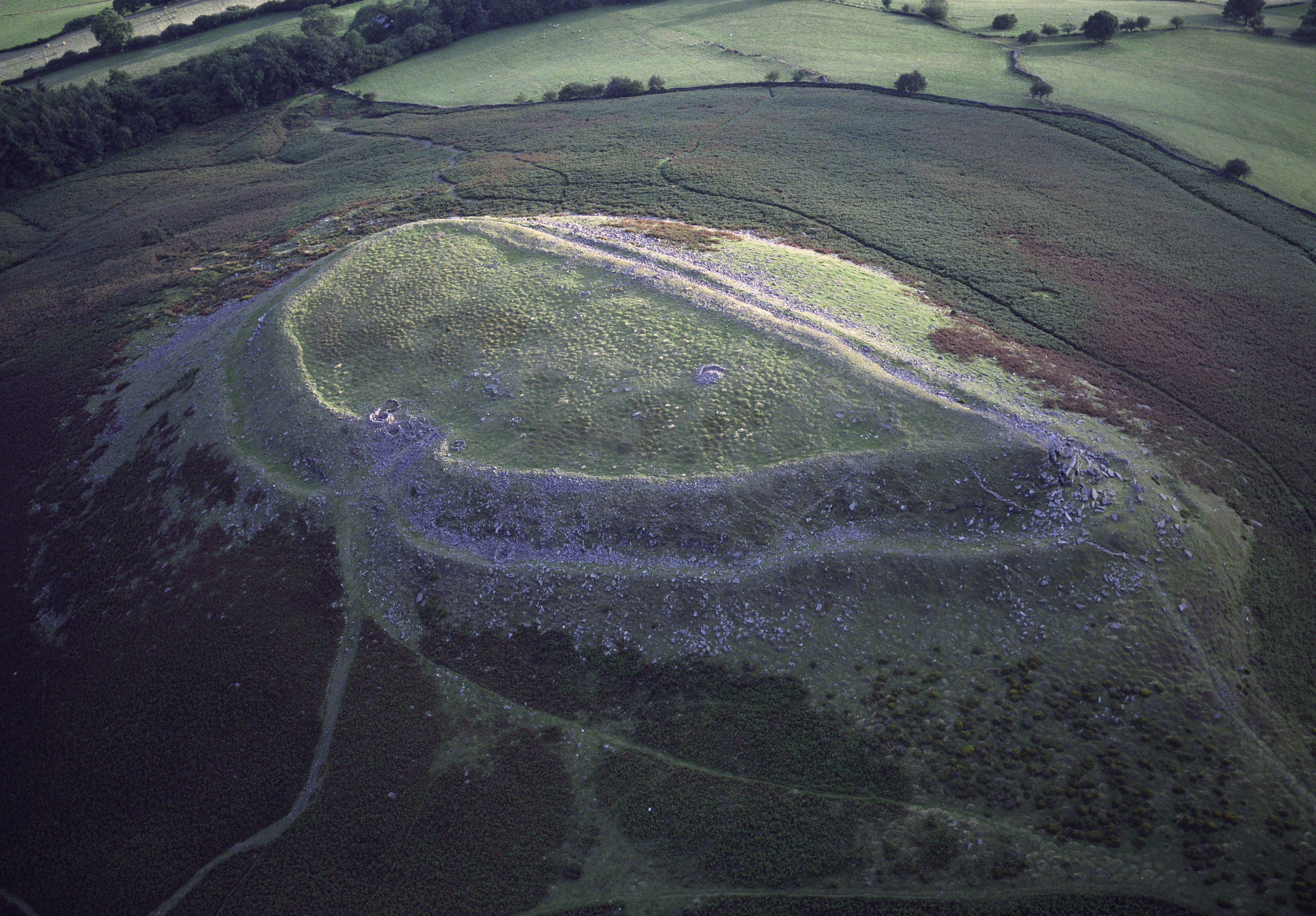 Atlas of Hillforts 1474 Aerial view of Crug Hywel Hill Fort, Near Abergavenny, with details of fortifications clearly visible.